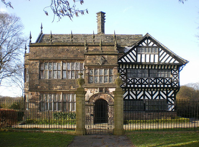 Hall i' th' Wood Hall i' th' Wood Museum is a Tudor wooden framed house. It was originally built as a half-timbered hall in the 16th century and in the mid seventeenth century a grand stone extension in the Jacobean style was added. The house was home to Samuel Crompton who invented the Spinning Mule while living here in 1779.